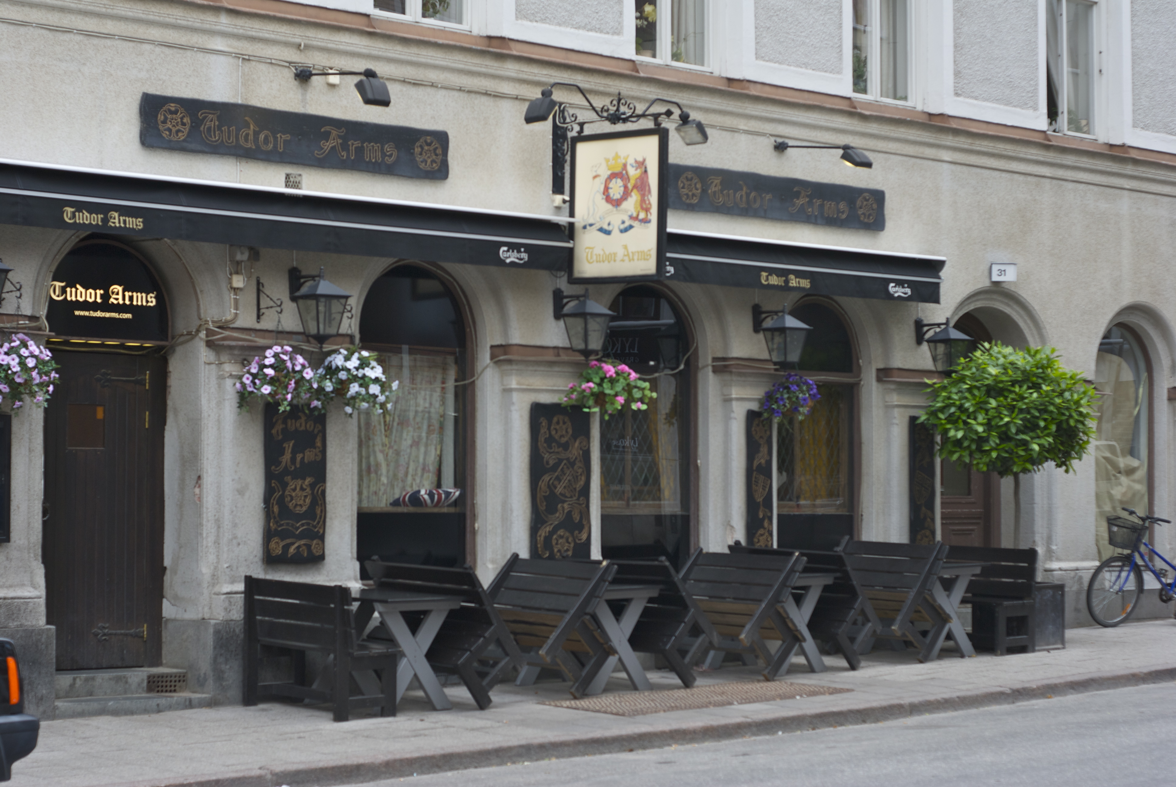 Tudor Arms, Pub. Grevgatan, Östermalm, Stockholm.